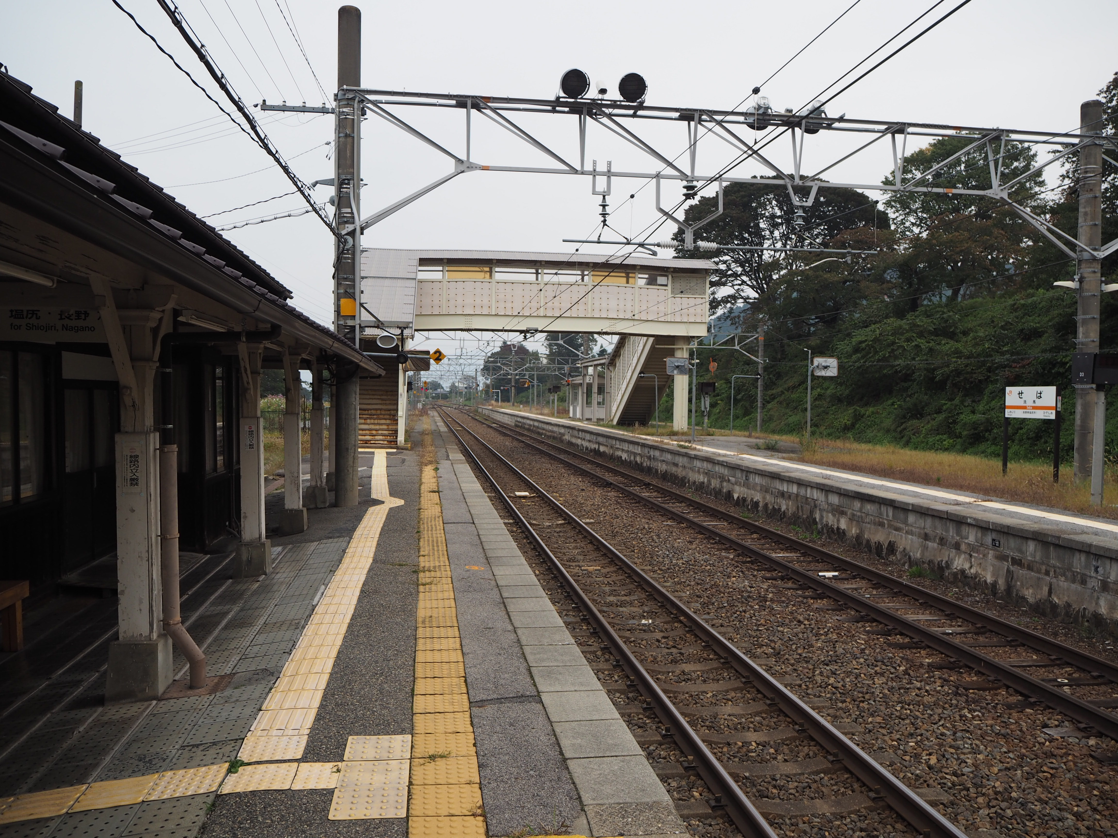 Platforms of Seba Station